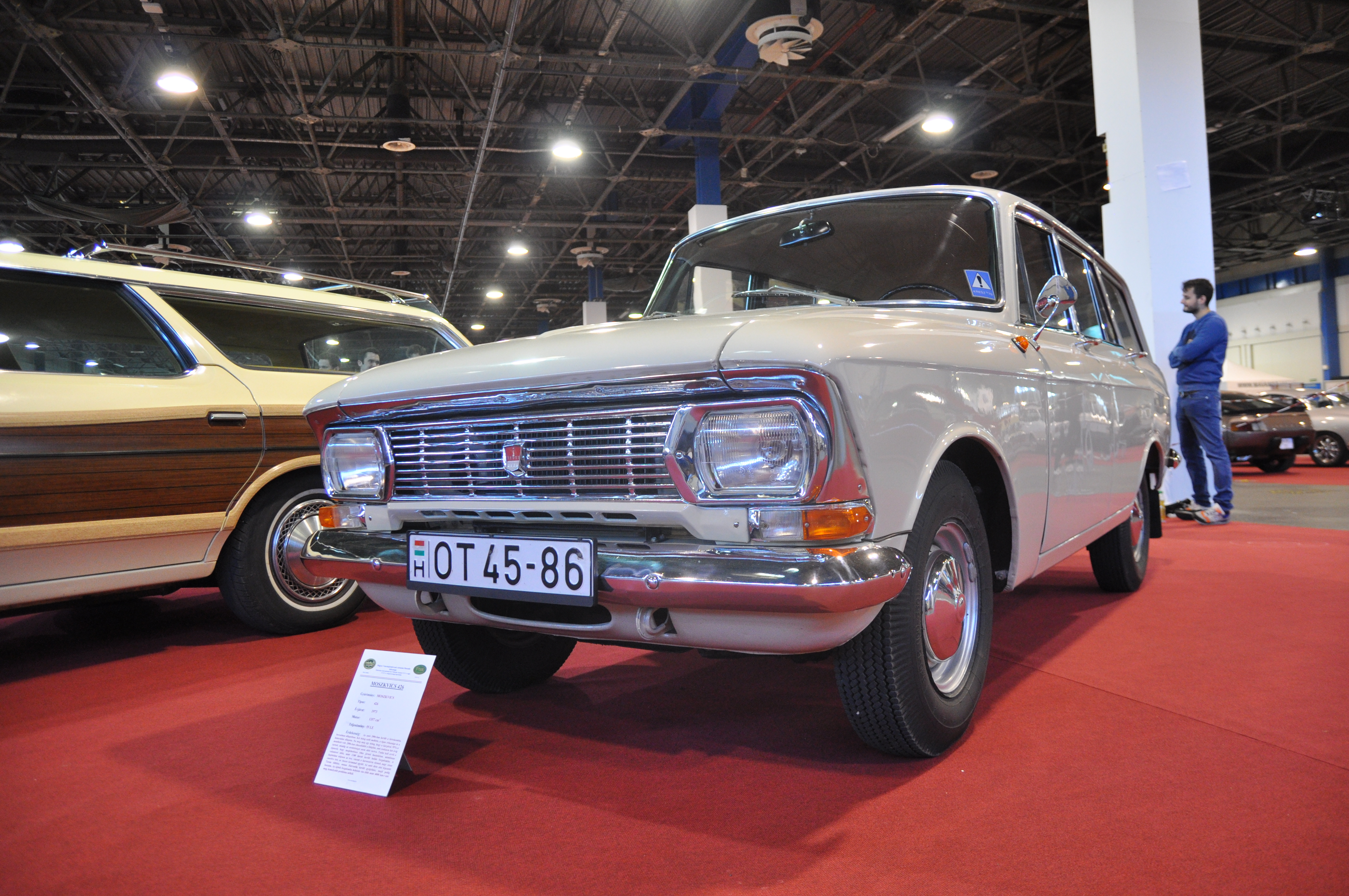 Budapest, Hungexpo, Automobil and Tuning Show 2017